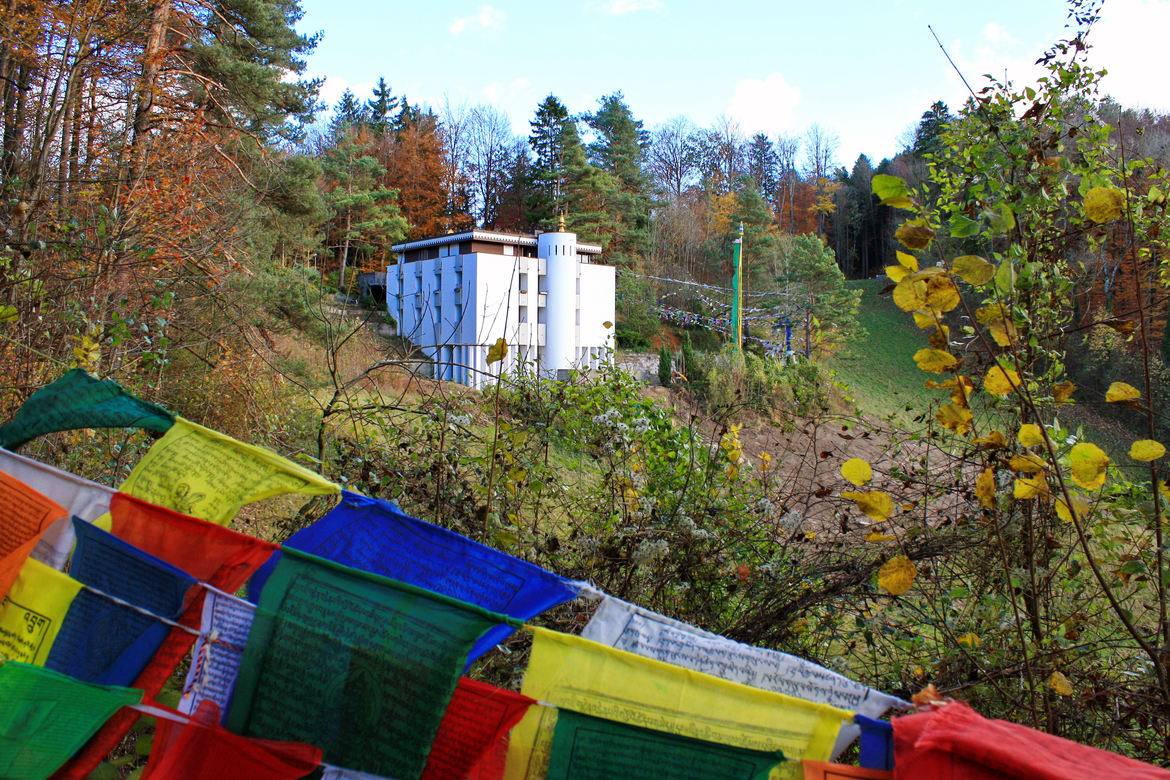 Tibetan monastery Tibet Institute Rikon in Zell-Rikon (Switzerland), as seen from the shrine.